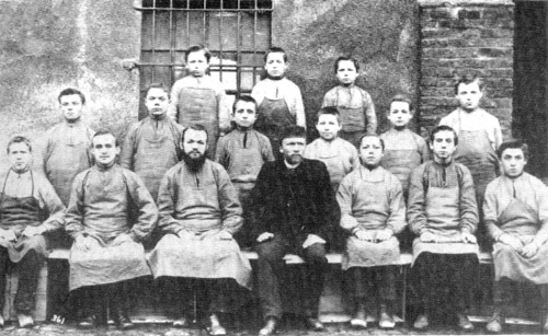 Children's work in Germany in the beginning 19th century